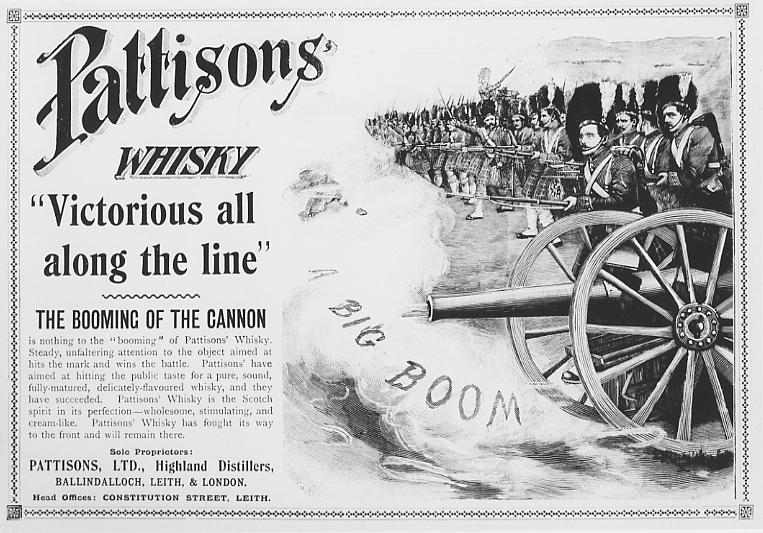 Pattison's Whisky Advertisement